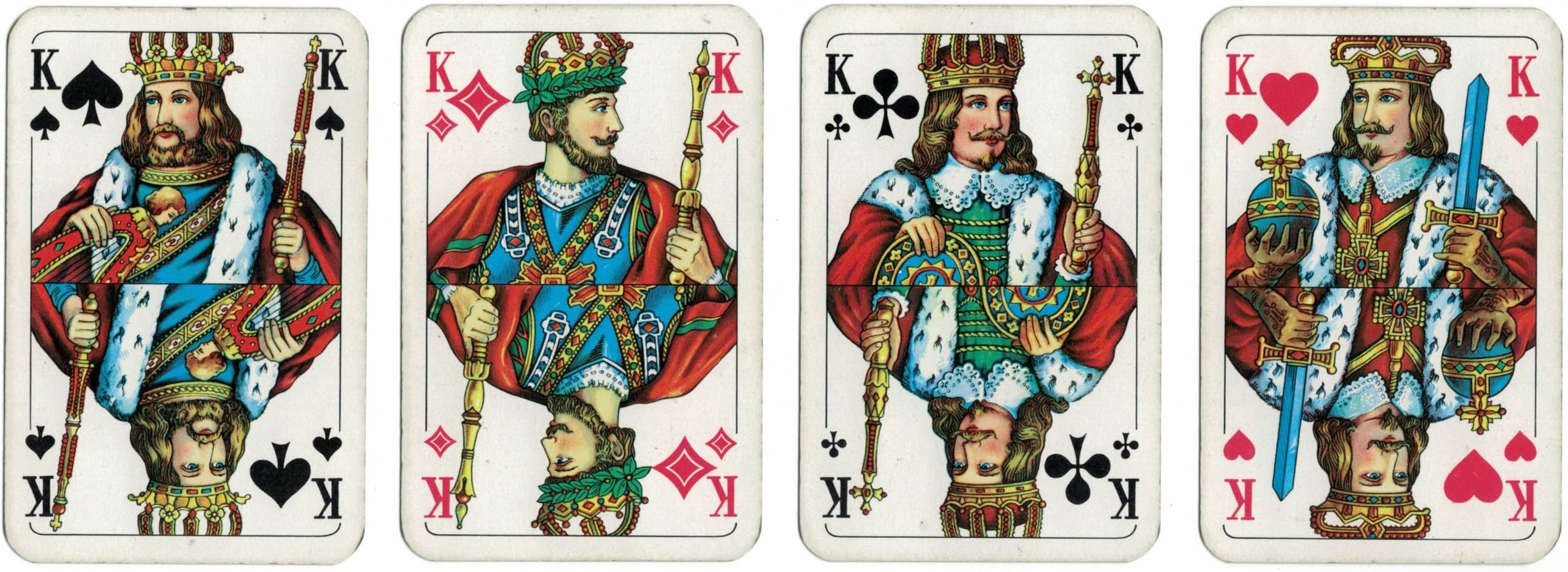 Four kings from the Berlin pattern, the most common playing card pattern in Germany.